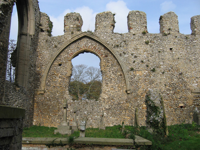 Weybourne Priory. Some restoration work has been taking place, including removal of trees. See 1198129 for history of the priory.